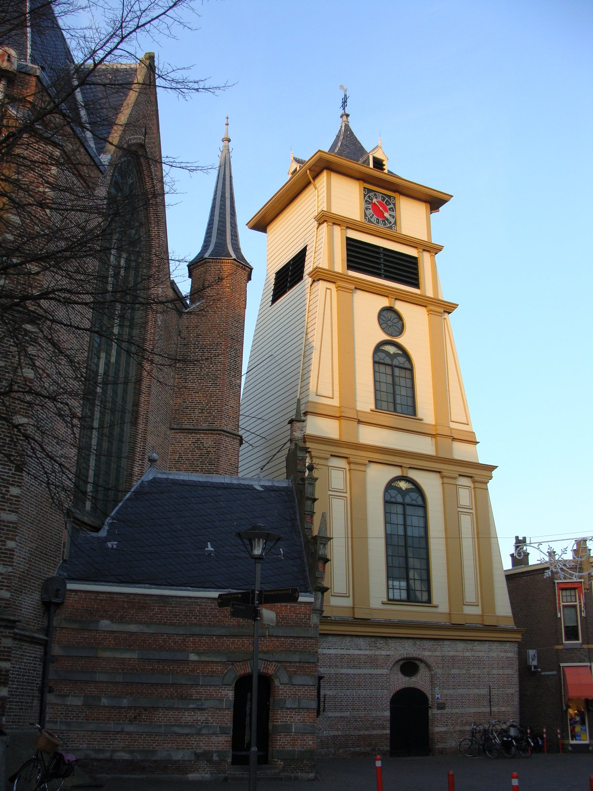 Tower of the Westerkerk in Enkhuizen